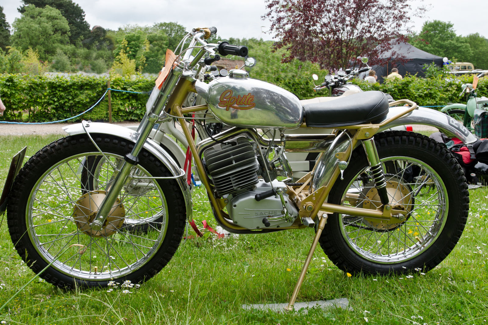 1970 Sprite Goldfinger with Sachs engine captured at Trentham Gardens in 2013